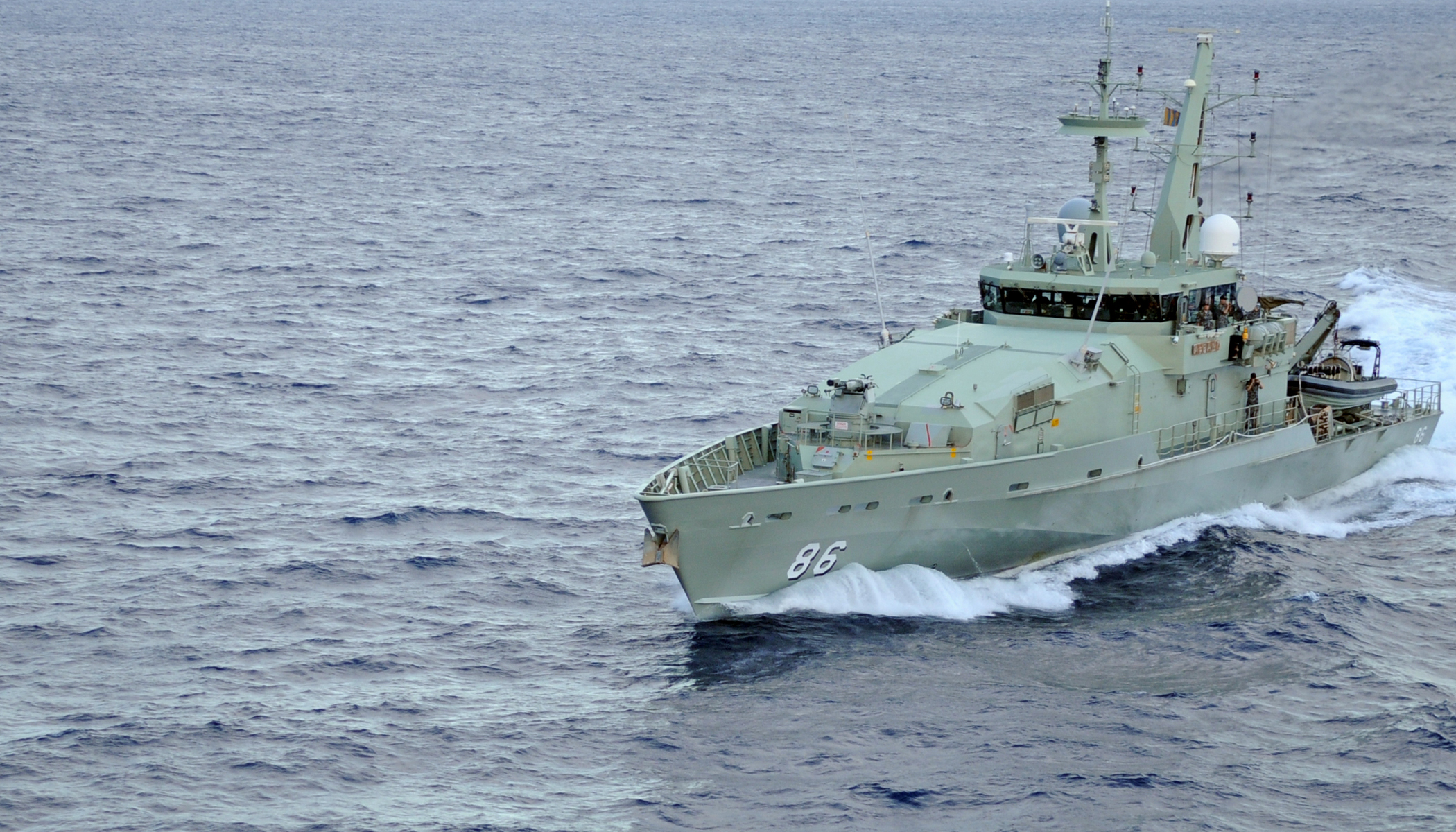 Armidale class patrol boat HMAS Albany in the Timor Sea during April 2012